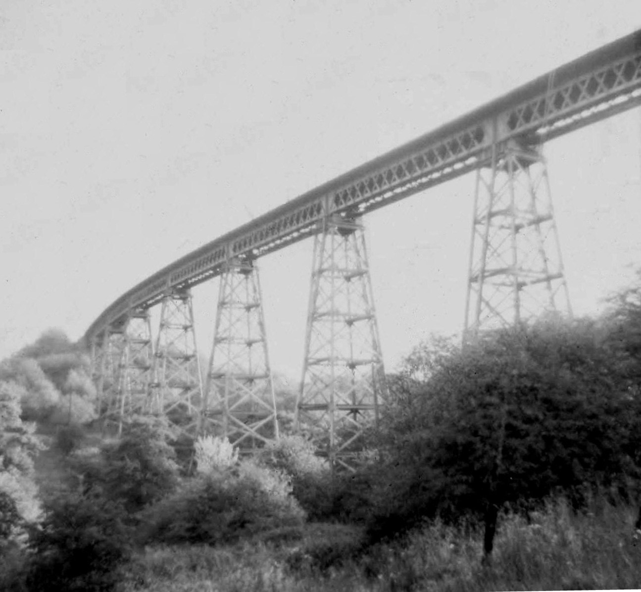 Viaduct near Frankley